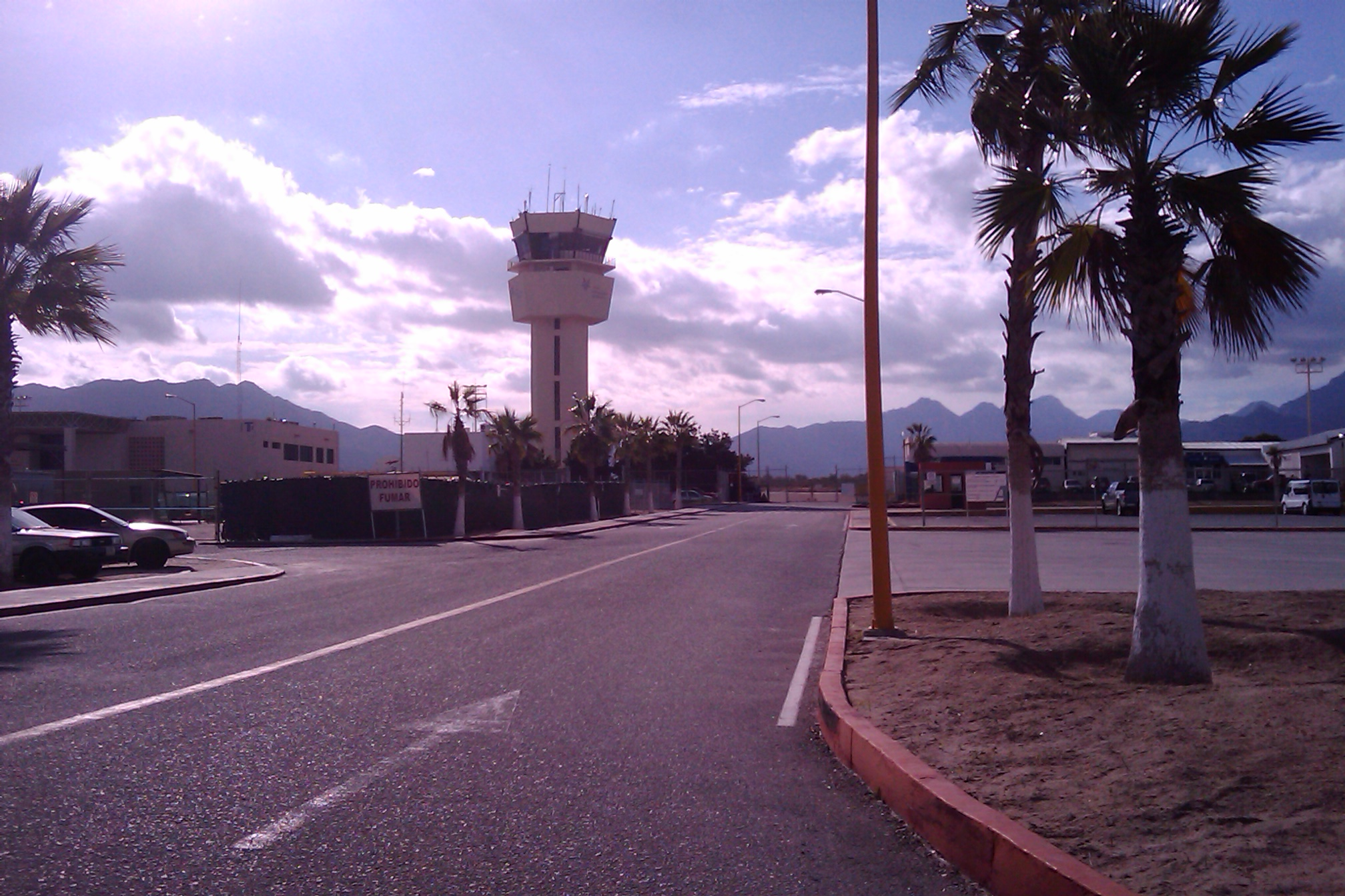 view of the control tower at Los Cabos International Airport